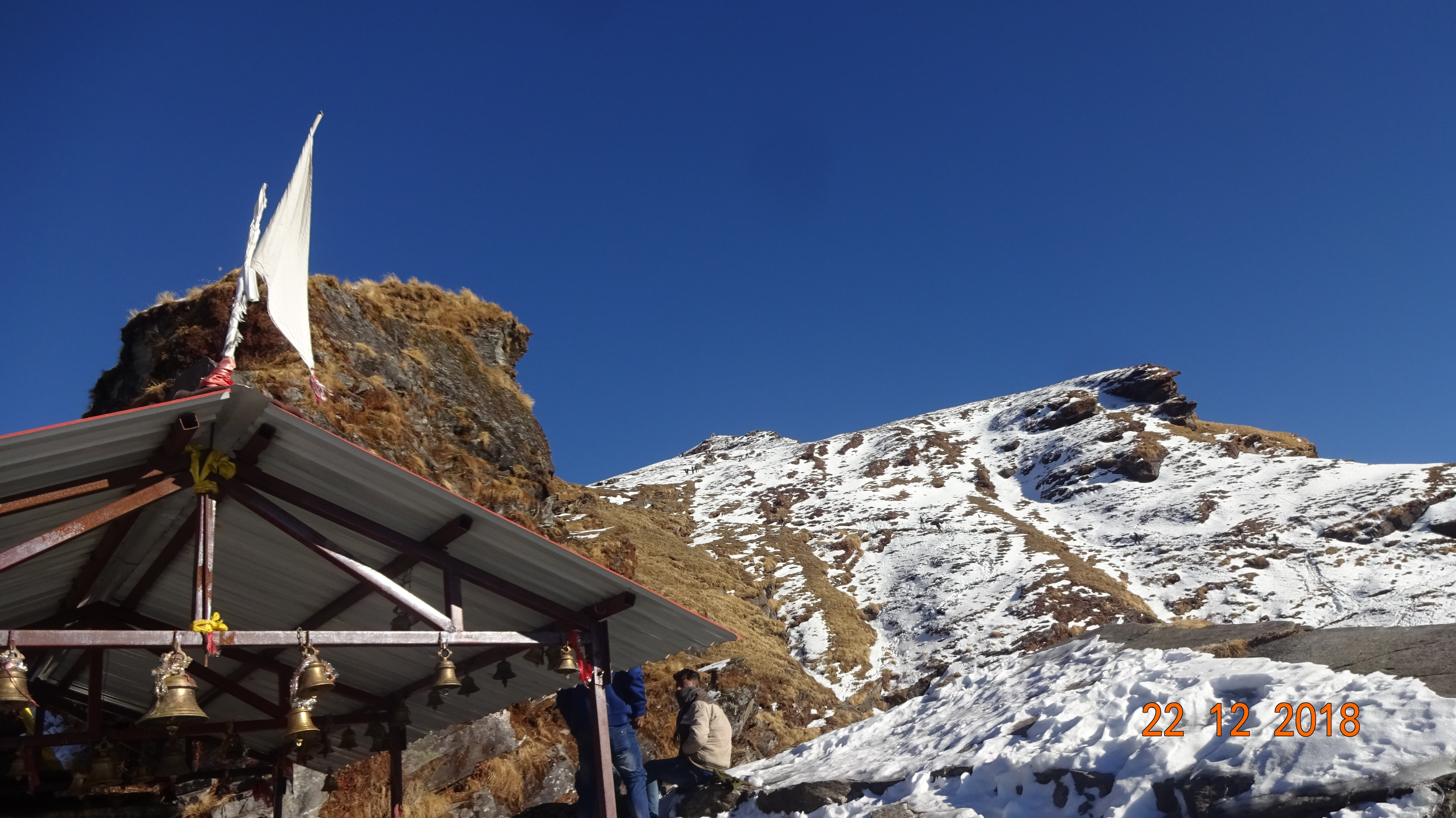 Chandrashila peak from Tungnath Temple